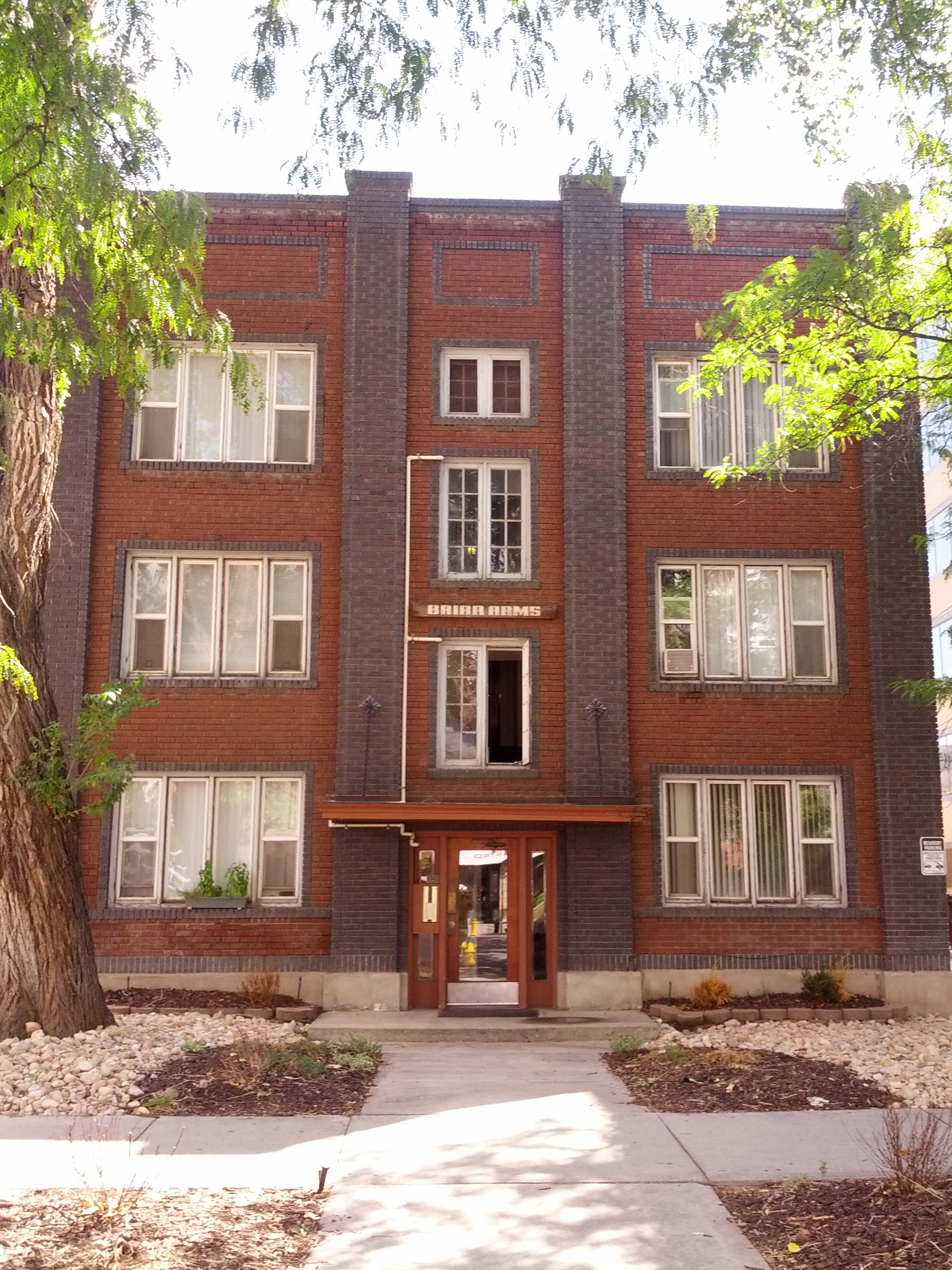 Corona Apartments, 335 S. 200 East Central City